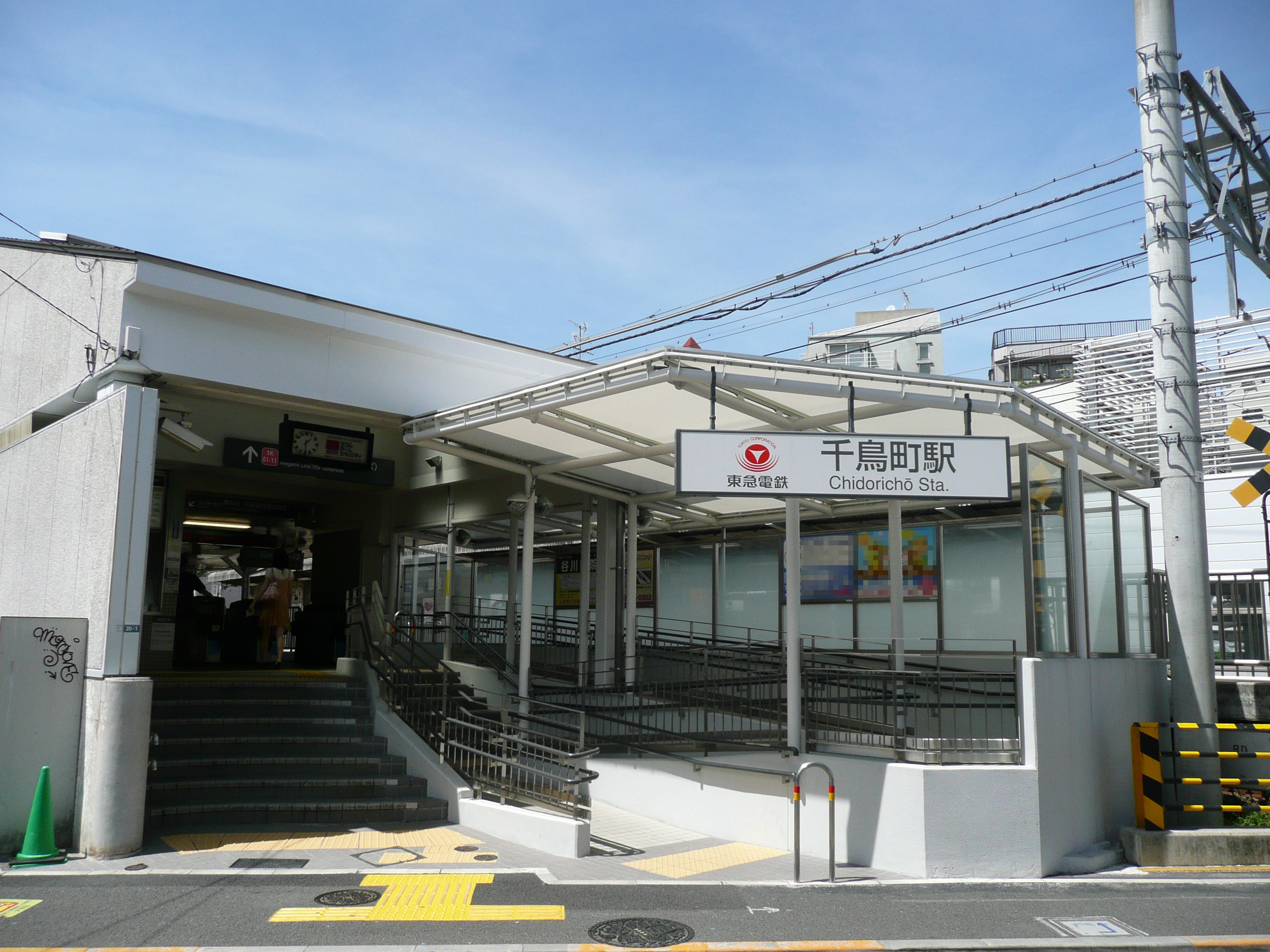 Chidorichō Station